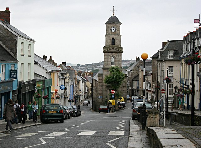 Penryn Town Centre. The prominent building with the clock tower is Penryn Town Hall and Museum, formerly the Market Hall. It sits between Higher Market street on the right and Lower Market Street on the left. The street plan of this area has not changed since this was a medieval market place with the houses and shops at the front of narrow medieval burgage strips. This is still the commercial core of Penryn but it is obviously no longer a major shopping centre as it has been since medieval times. There is distinct lack of the normal high street shops.